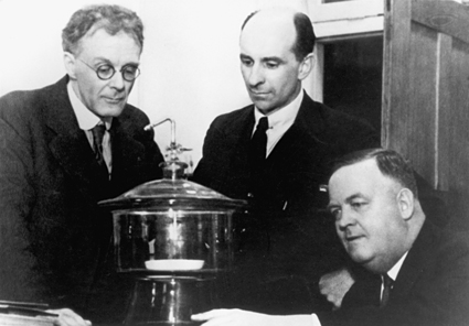 Key figures in the foundation and early development of CSIR: George Julius, David Rivett and Arnold Richardson.